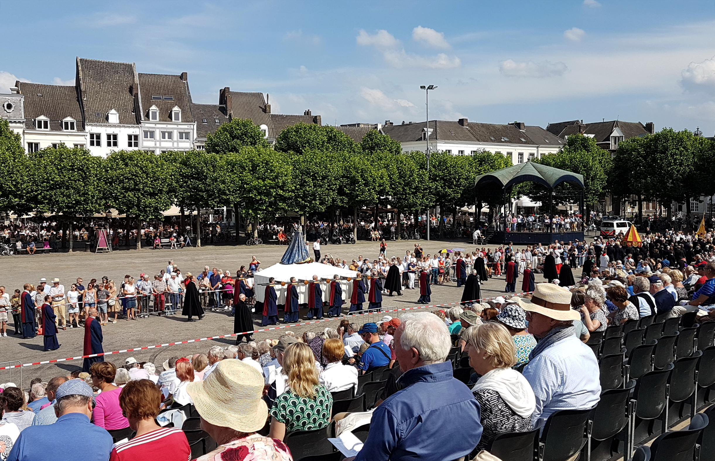 View of a historic religious procession during the 2018 Heiligdomsvaart ("Relics Pilgrimage") in Maastricht, Netherlands. The history of this seven-yearly catholic pilgrimage goes back to the Middle Ages. The first 'modern' version took place in 1874. On both Sundays of the 10-day festival, a procession is held in which the main relics of the town and other devotional objects are exhibited. This photo was taken from the spectator stand in Vrijthof square during the (second) procession on 3 June 2018. This delegation is from the Basilica of Our Lady, which includes the statue of Our Lady, Star of the Sea. The statue is carried on a processional litter by members of the fraternity of Our Lady.